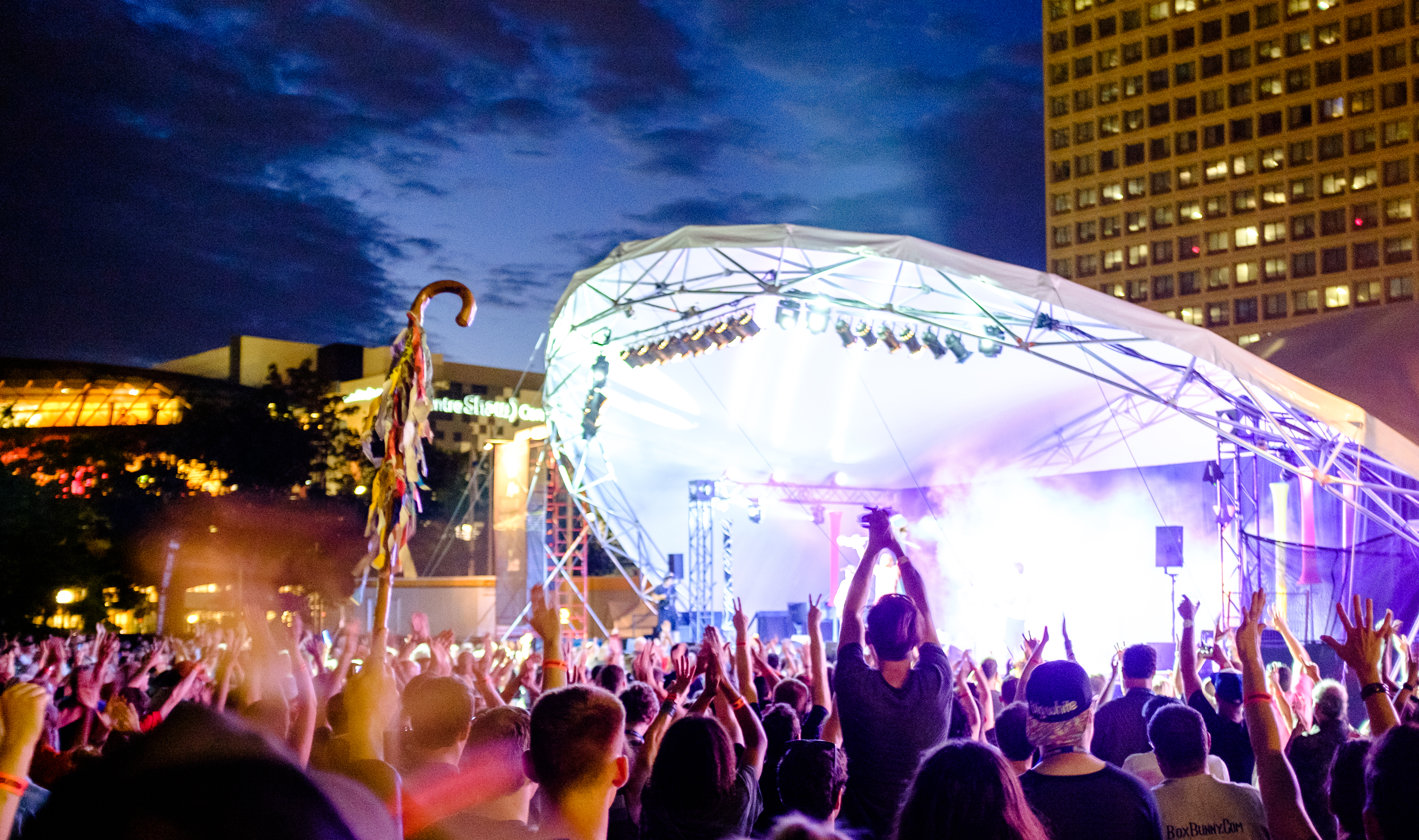 Ottawa Jazz Festival - Confederation Park - Photo by: Chris Parker